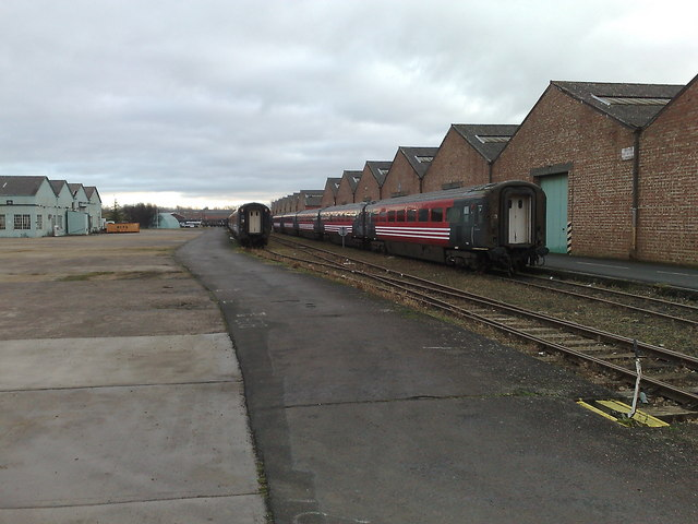 Train storage depot at Long Marston, Warwickshire